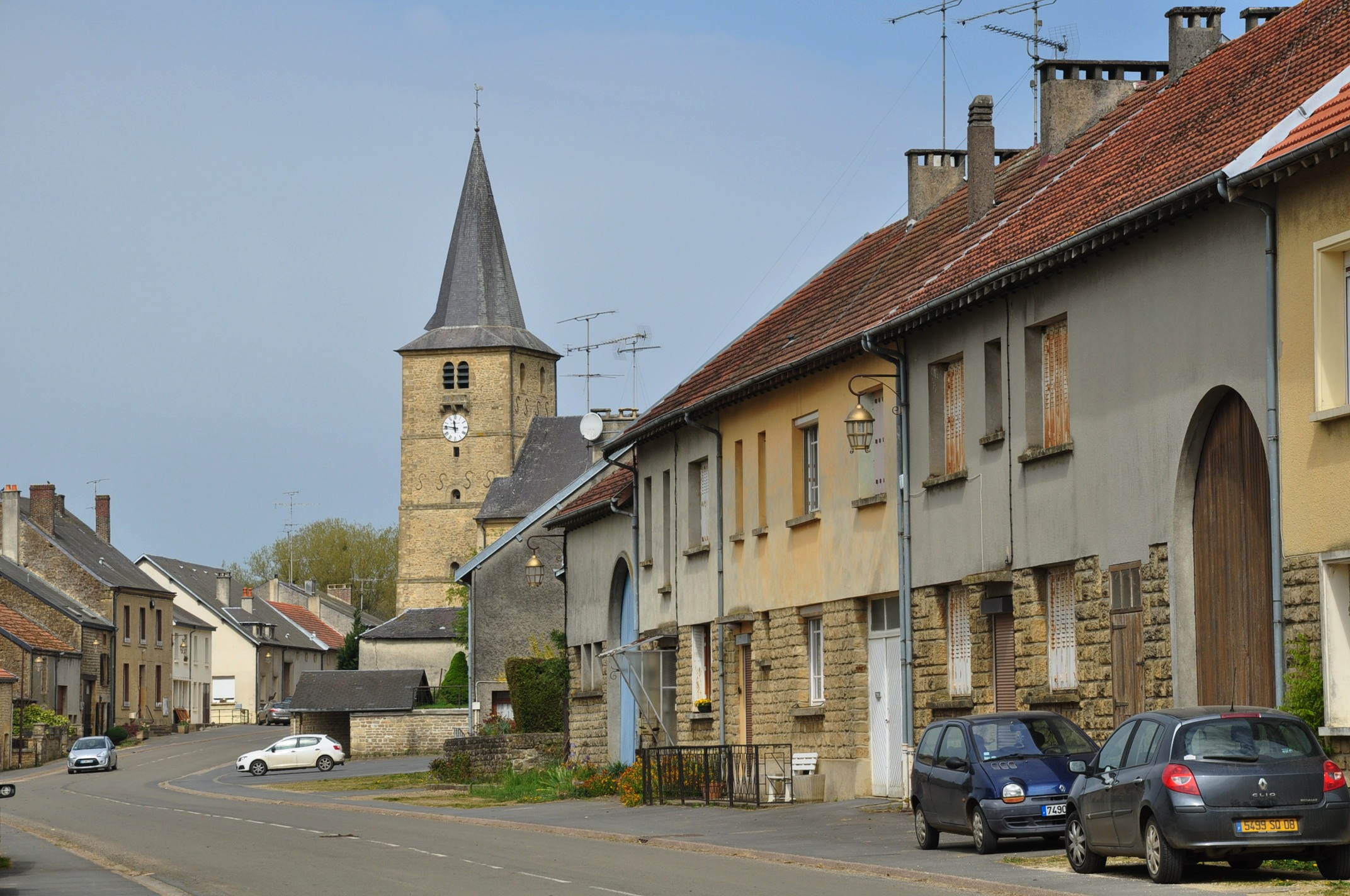 The Rue Principale (Main Street) and the church of St. Sebastian in Puilly-et-Charbeaux (Ardennes Department, Champagne-Ardenne region, France).